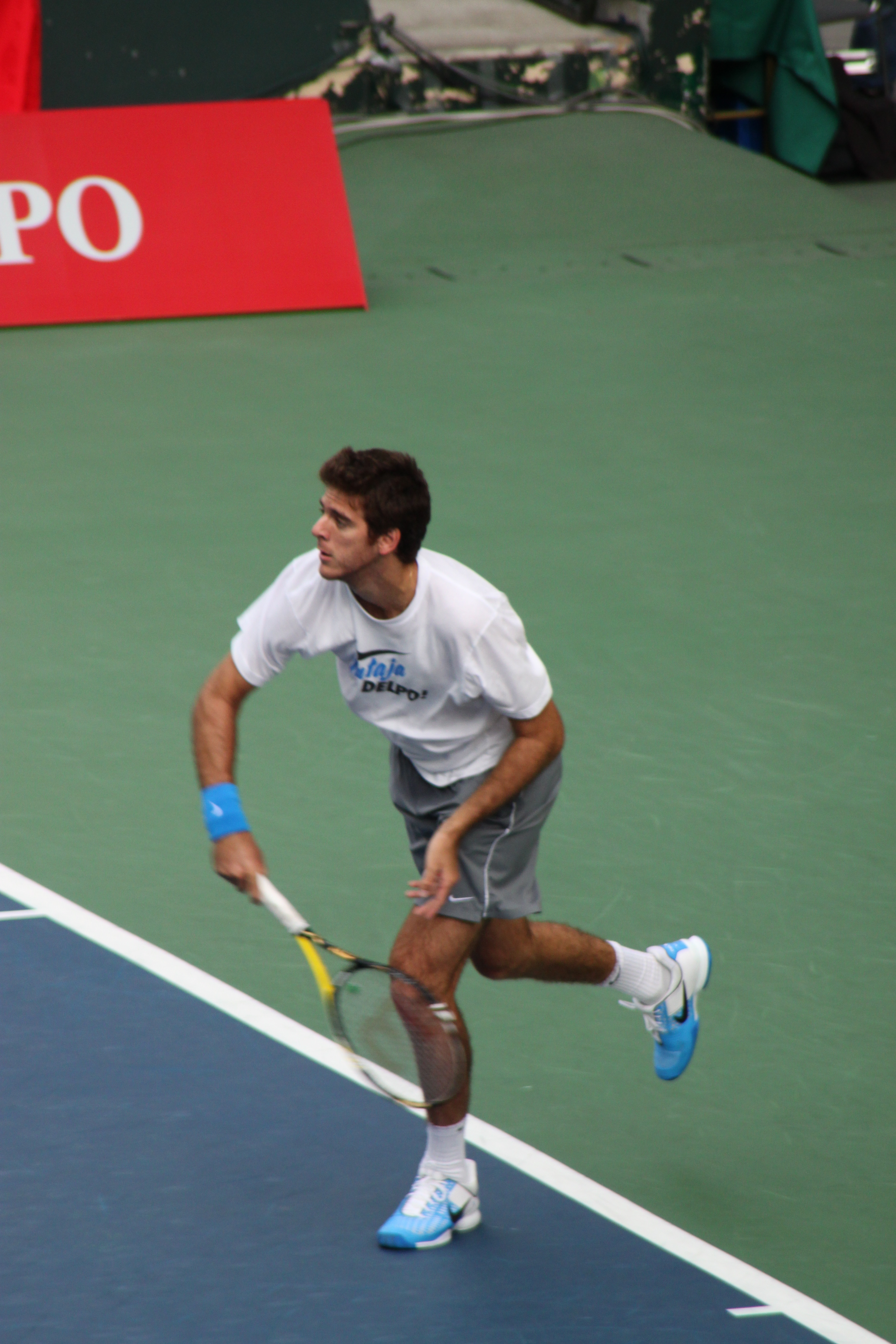 Juan Martín del Potro at 2010 Rakuten Japan Open Tennis Championships, Tokyo, Japan